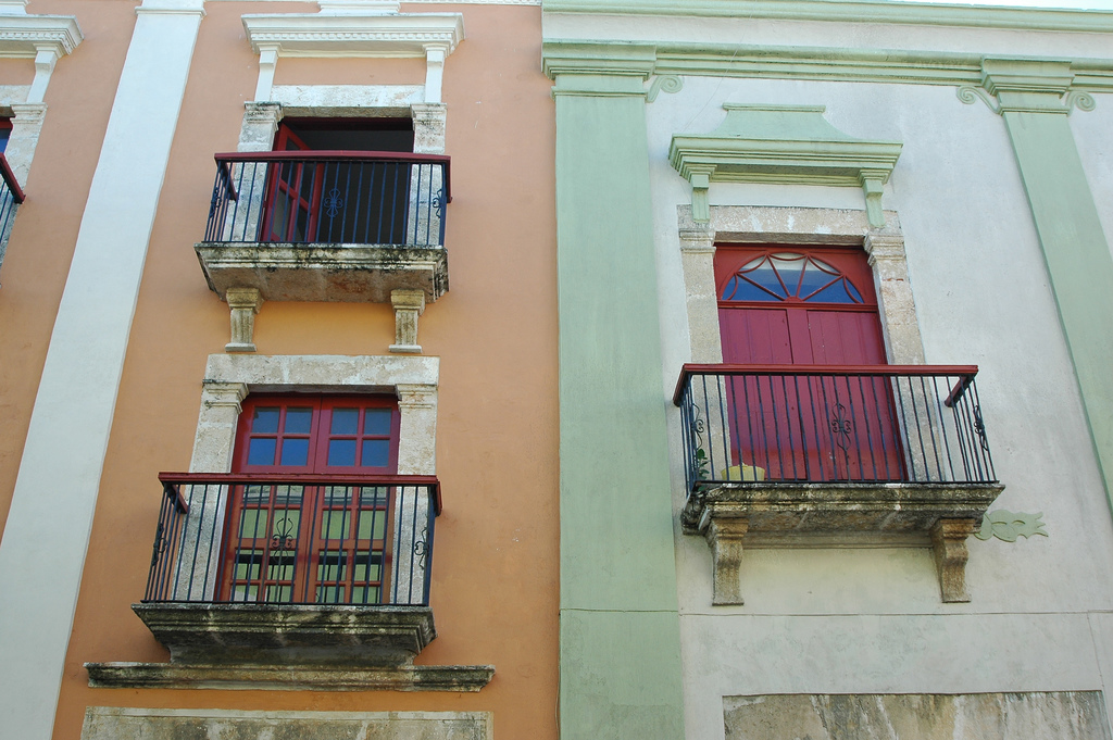 Houses in the UNESCO Historic Center of San Francisco de Campeche district, Campeche state, southeastern México.